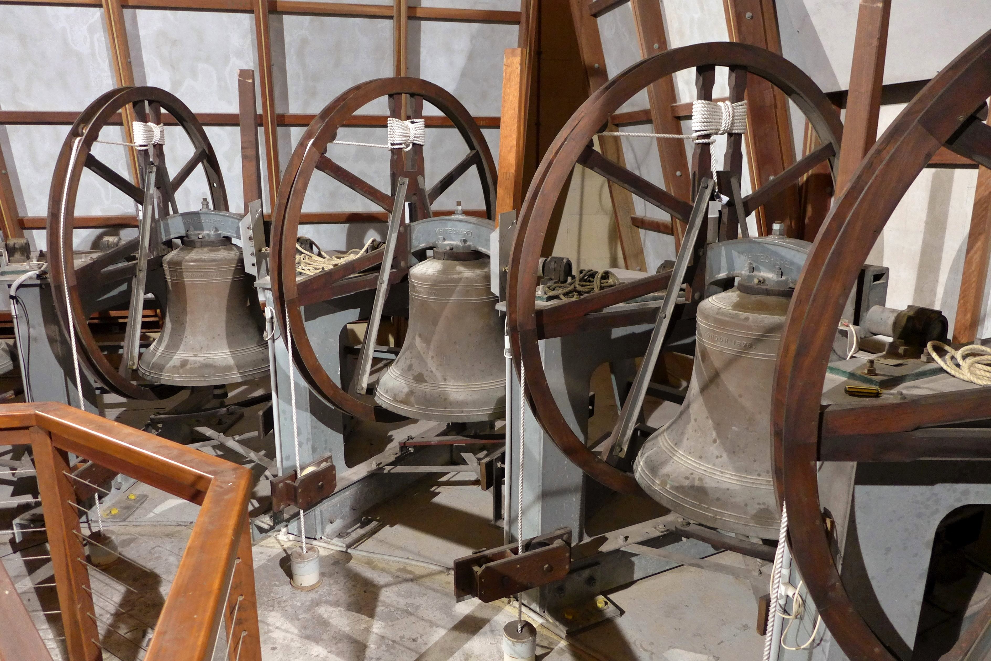 View of the interior of the bell tower at St John's Cathedral, Brisbane, Queensland, Australia